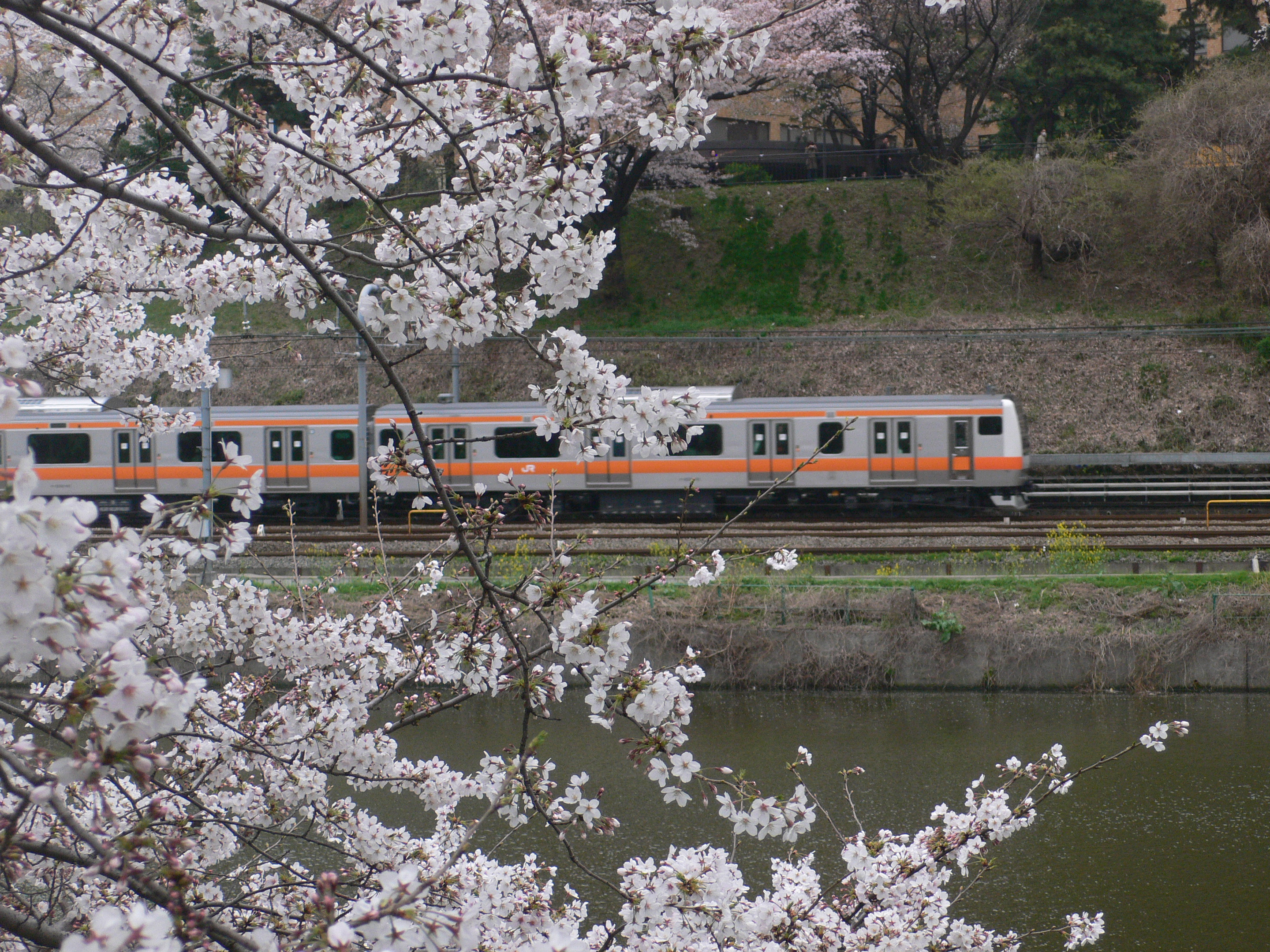 Chūō Main Line (Iidabashi - Ichigaya)